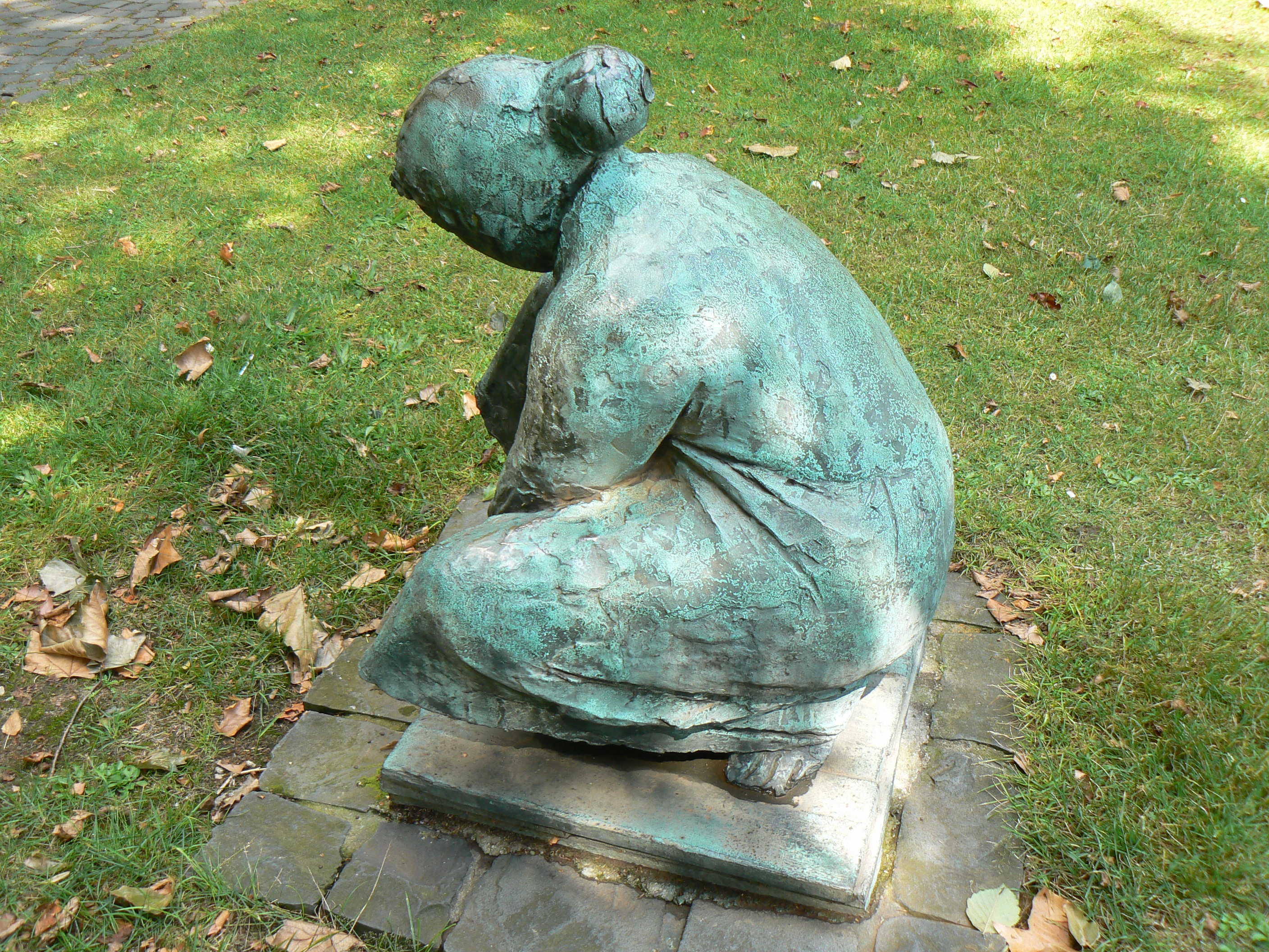 Location:City Center Marl/Germany Collection: Skulpturenmuseum Glaskasten Sculpture:Spielende Frau (1956) Sculptor: Giacomo Manzu